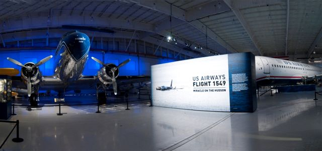 Museum's Piedmont Airlines DC-3 is a very low-time air-frame